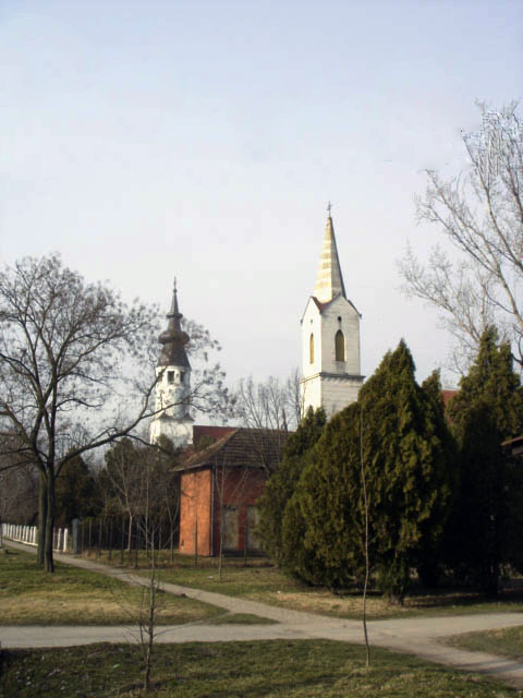 The Catholic and Lutheran Churches in Belo Blato/ Vojvodina/ Serbia.